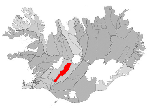 Based on Municipalities of Iceland.png.